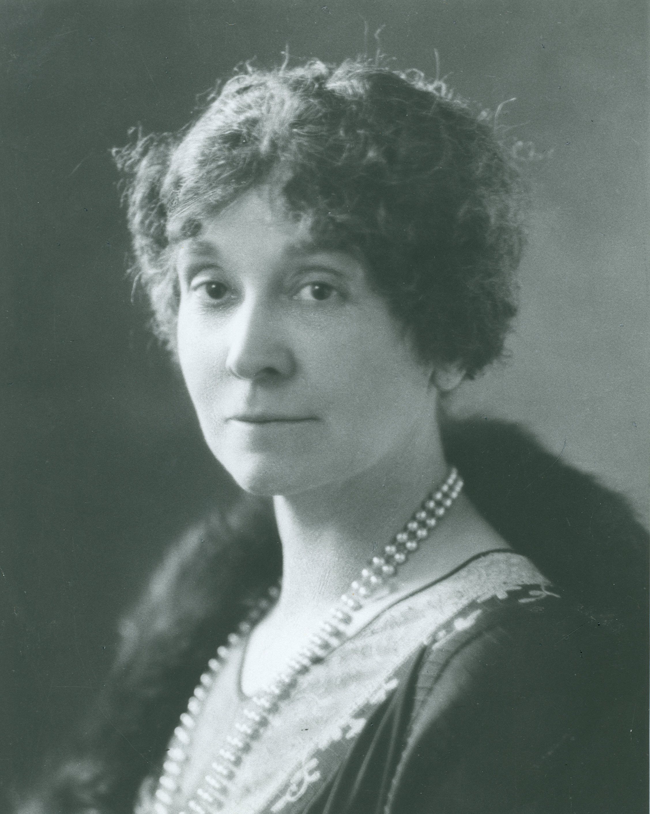 Former Congresswoman Effiegene Locke Wingo.